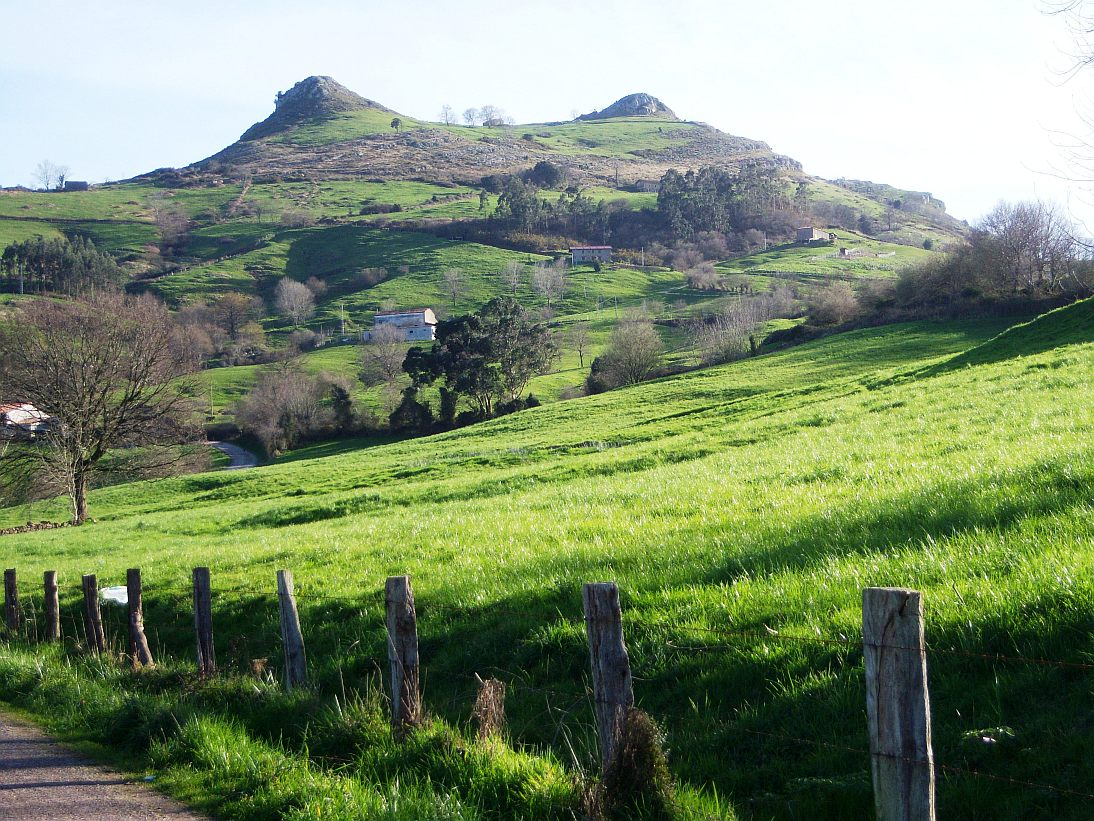 The Peaks of Rucandio or Busampiro, from left to right Cotillamón (399 meters) and Marimón (403 meters). Two hills known locally as Las Tetas de Liérganes (The Tits of Liérganes). Cantabria, Spain.